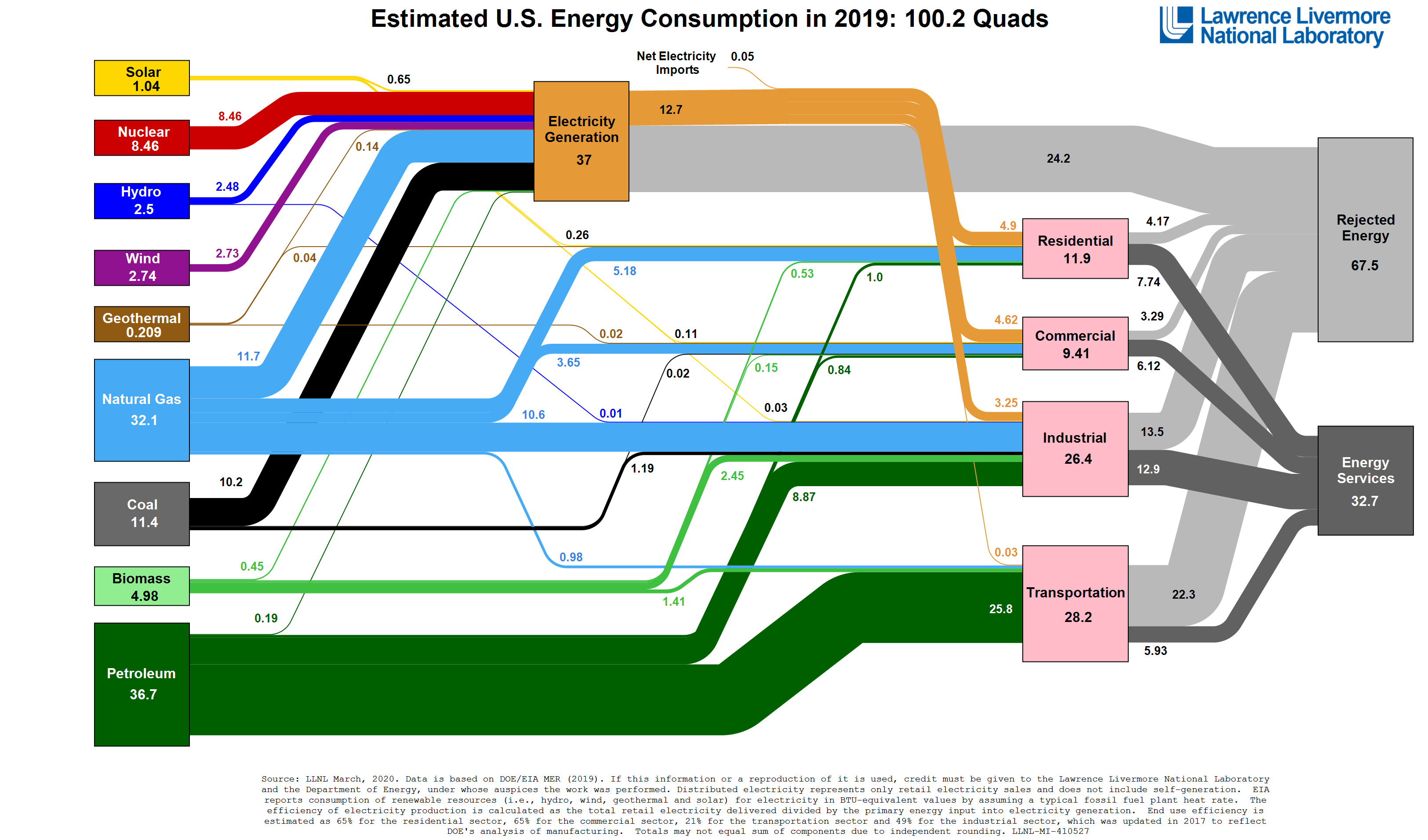 The 2019 energy flow chart released by Lawrence Livermore National Laboratory details the sources of energy production, how Americans are using energy and how much waste exists.